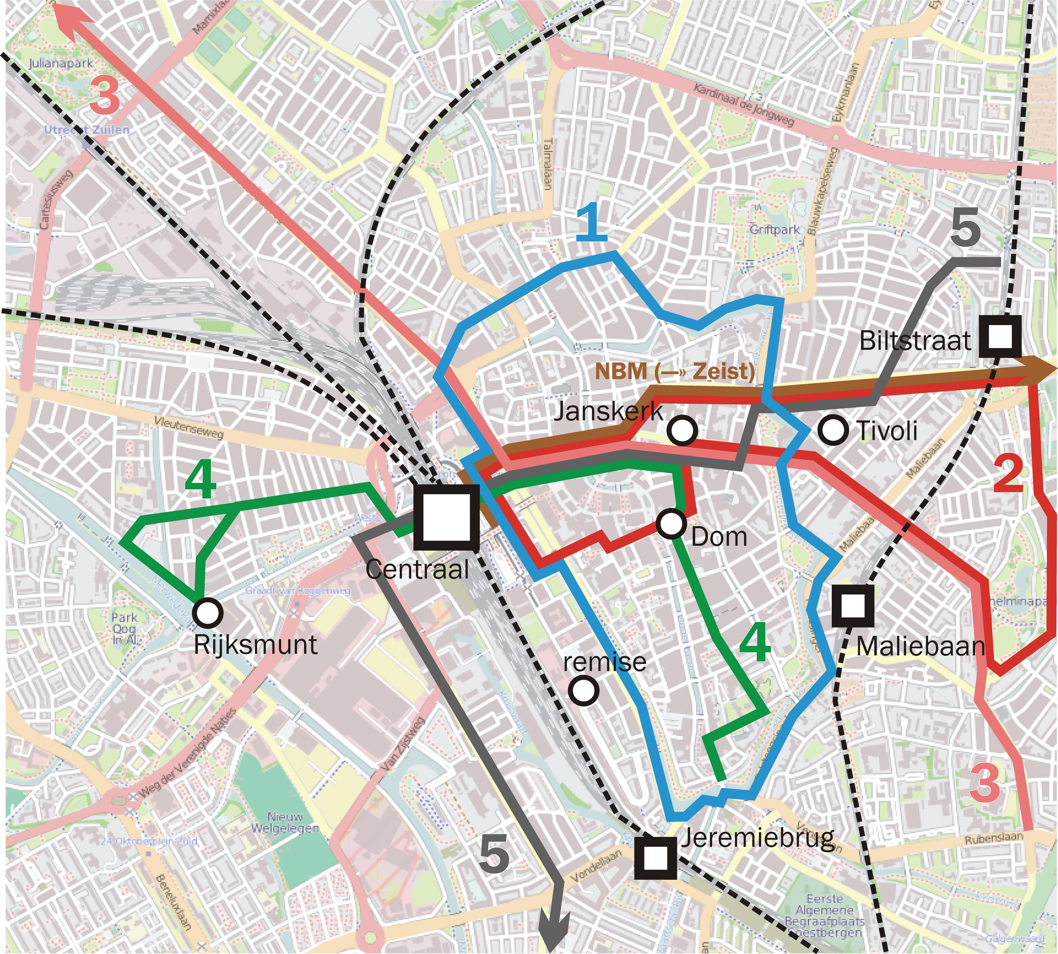 Map of tramways in Utrecht, ca. 1933. Map drawn based on modern Open Streetmap imagery. Information gathered from map by "AS", dated 1986, found in "De Gemeentetram Utrecht", by A. Steenmeijer, Schoorl 1986, p. 85, and Stationsweb (which lists which train stations were actually in use in 1933).